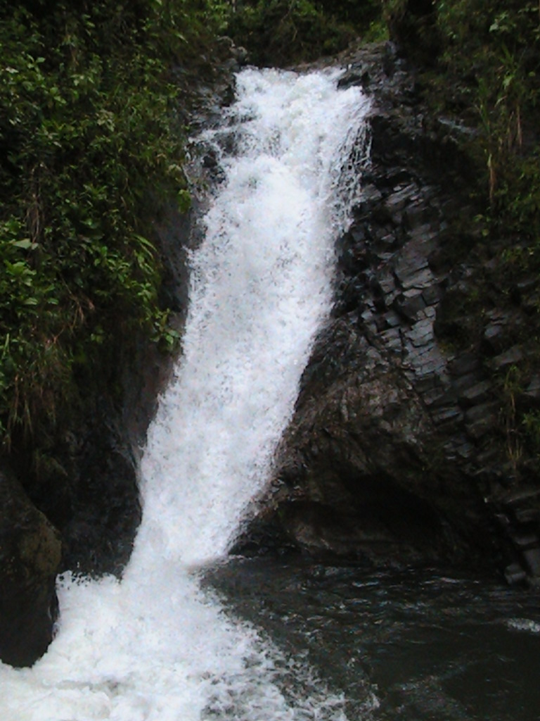 This is a beautiful waterfall in Pejibaye.